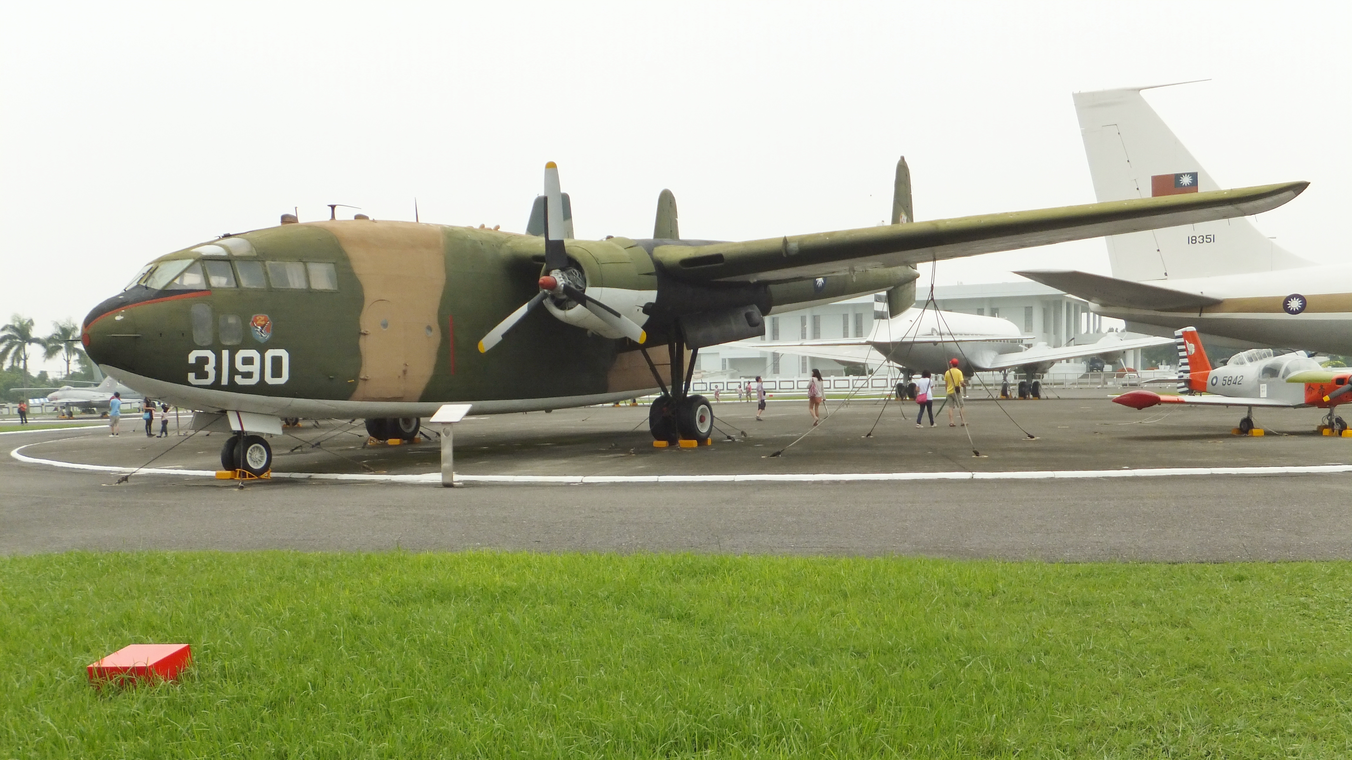 A former Republic of China Air Force Fairchild C-119G Flying Boxcar (USAF s/n 53-3190) on display at the R.O.C. Air Force Academy, Kaohsiung, Taiwan.